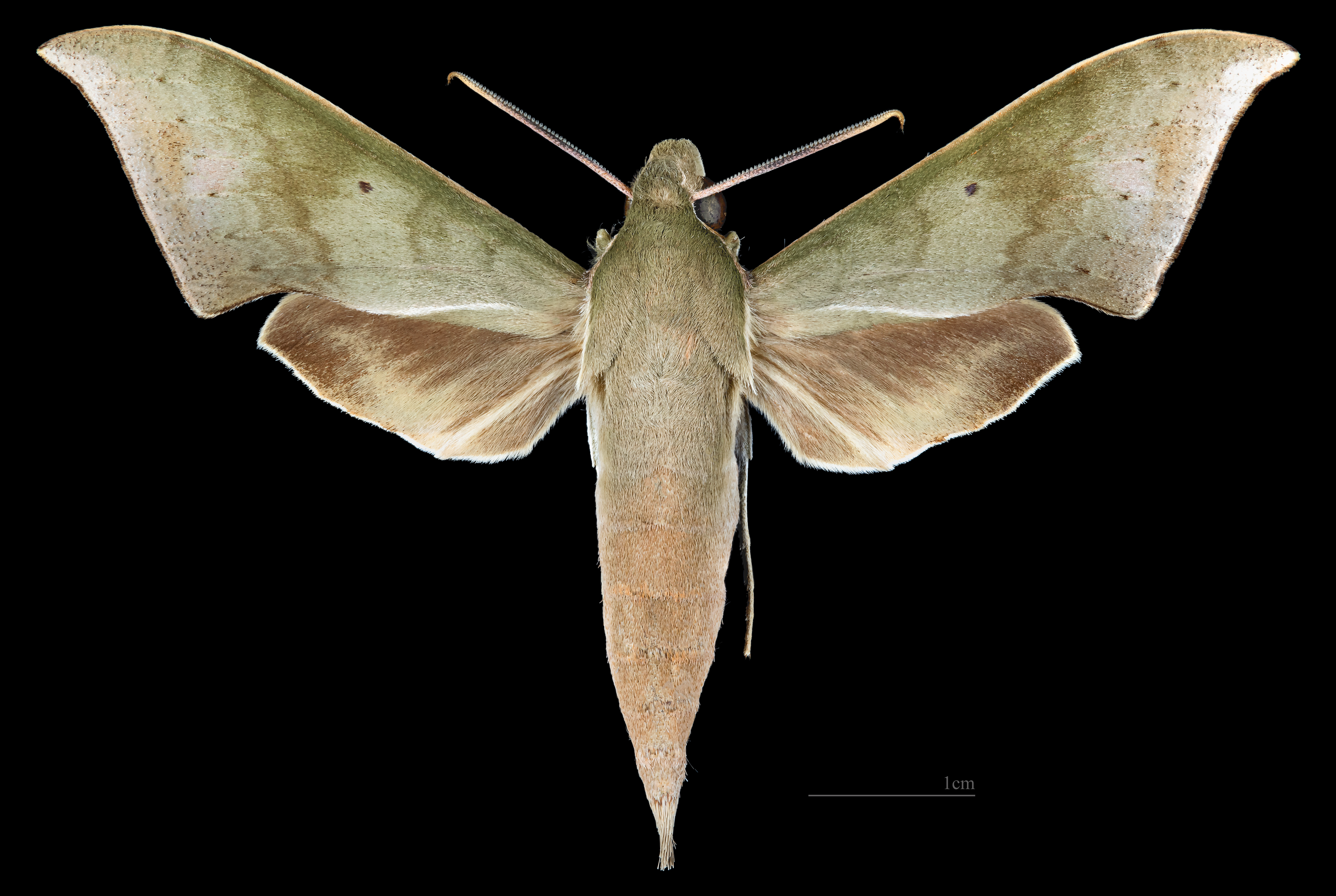 Xylophanes hannemanni - Dorsal side Collection of the Mathematician Laurent Schwartz